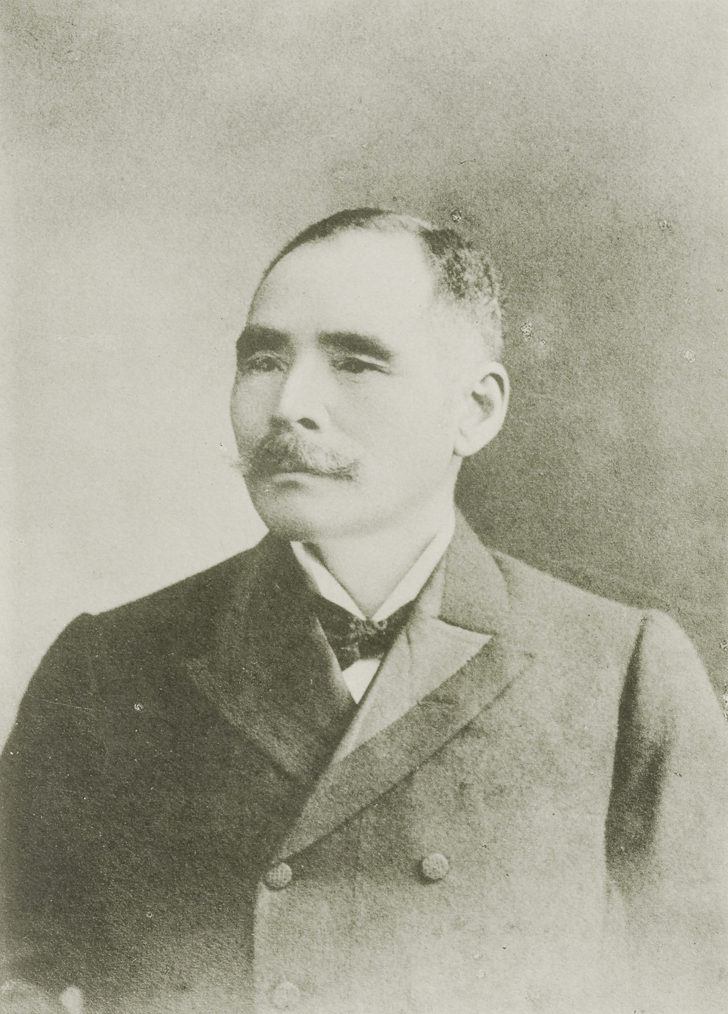 Portrait of Matsumoto Jutaro (松本重太郎, 1844 – 1913)